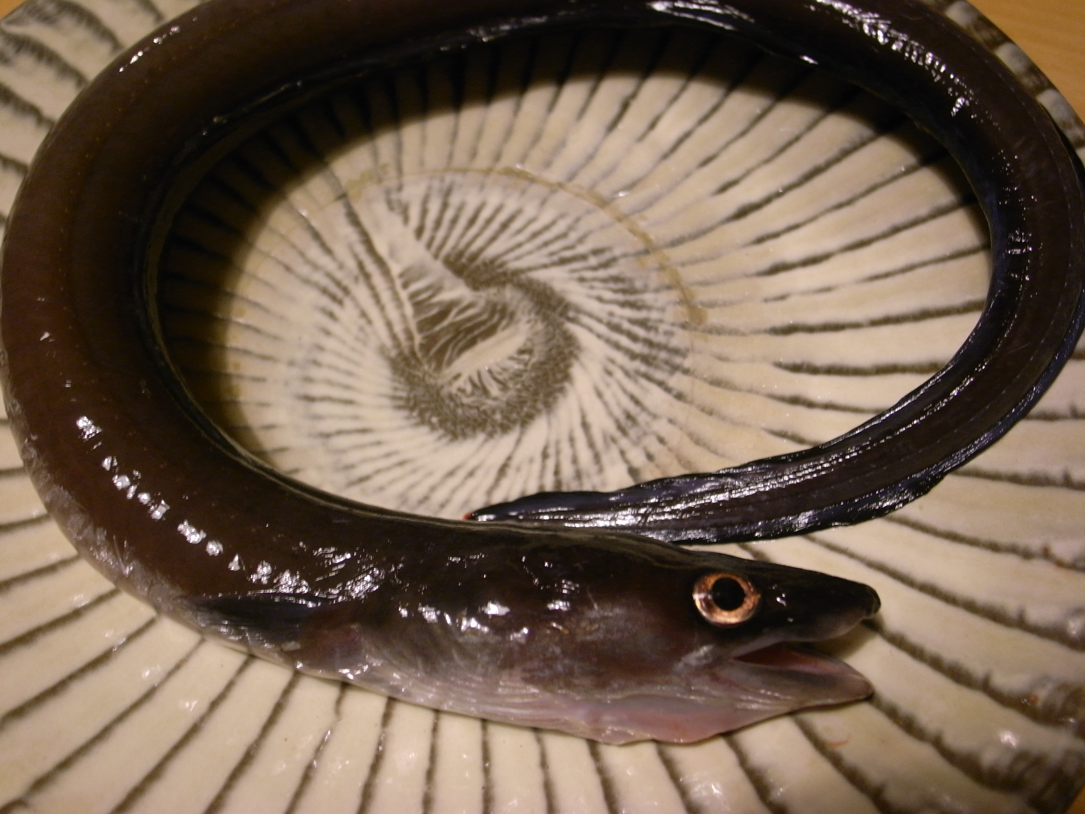 Conger japonicus taken on July 26, 2010